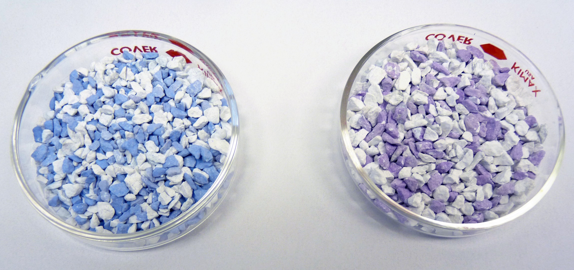 Drierite - brand name and registered trademark - desiccant made from calcium sulfate (gypsum) - with color indicator; Left site: dry; Right site:moist; In a Petri dish.